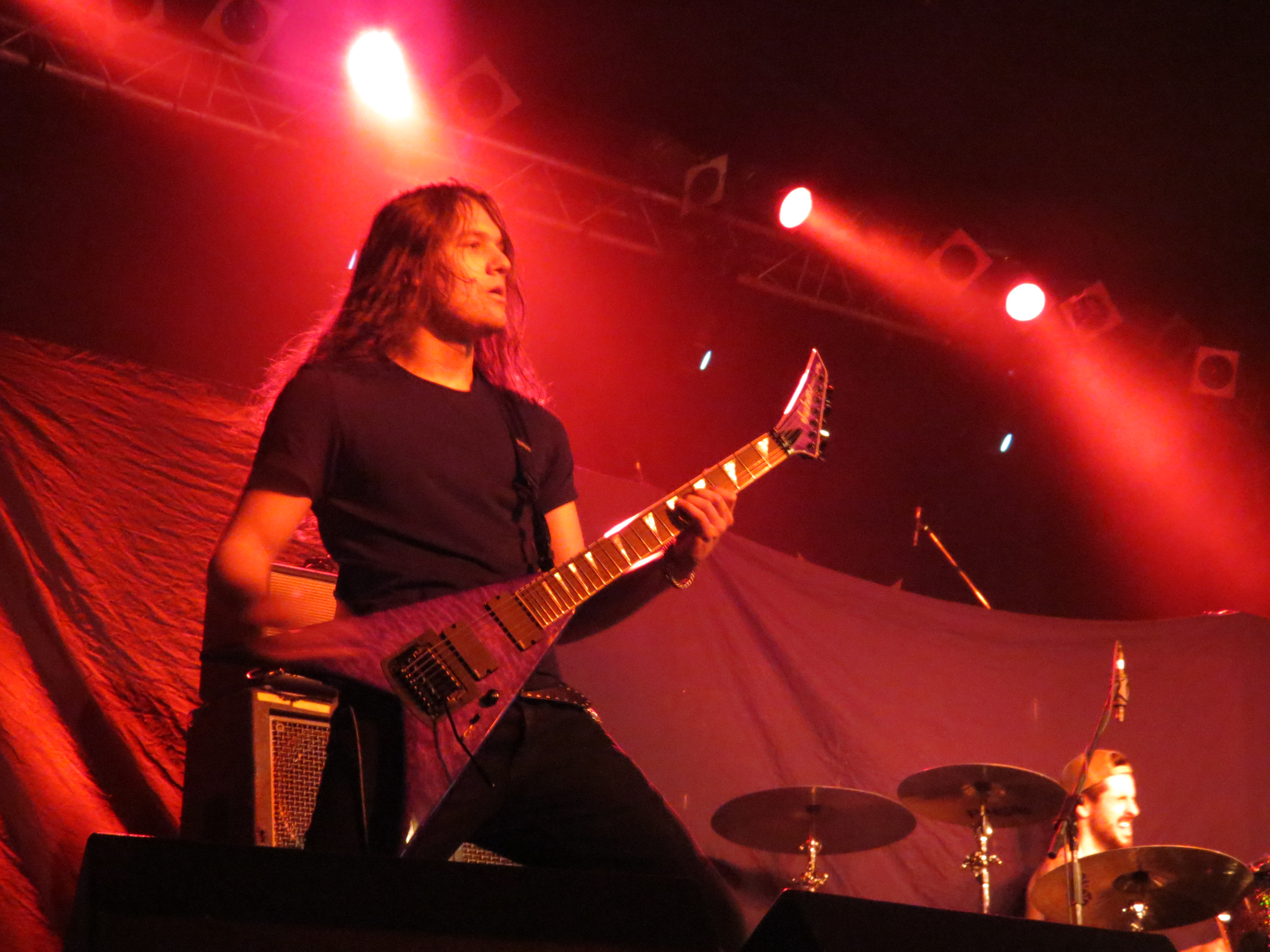 Jake playing with White Wizzard in Budapest on November 24, 2011.